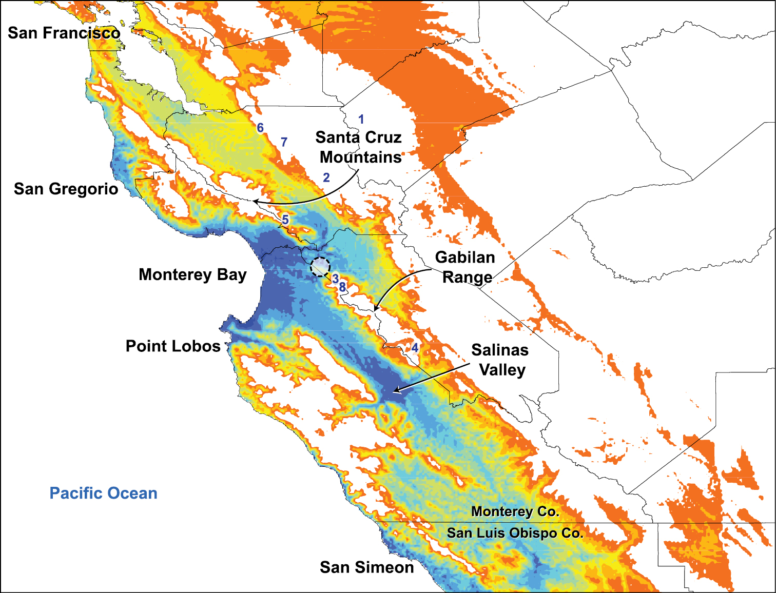 Niche-based distribution model inferred in Maxent. The model indicates predicted habitat suitability for the Illacme plenipes millipede, based on climatic variables extracted from known geographical coordinates of the species. It is endemic to central California High levels of habitat suitability are denoted in blue and low levels in red (reverse heat map). Coordinates of recently collected specimens are indicated by a circle around the locations (northwest of the Gabilan Range) to preserve the confidentiality of sensitive habitat. Localities surveyed for additional populations of Illacme plenipes: 1. Frank Raines Park; 2. Henry Coe State Park; 3. Fremont Peak State Park; 4. Pinnacles National Park; 5. Mount Madonna County Park; 6. Alum Rock Park; 7. Joseph D. Grant County Park; and 8. El Rancho Cienega del Gabilan.